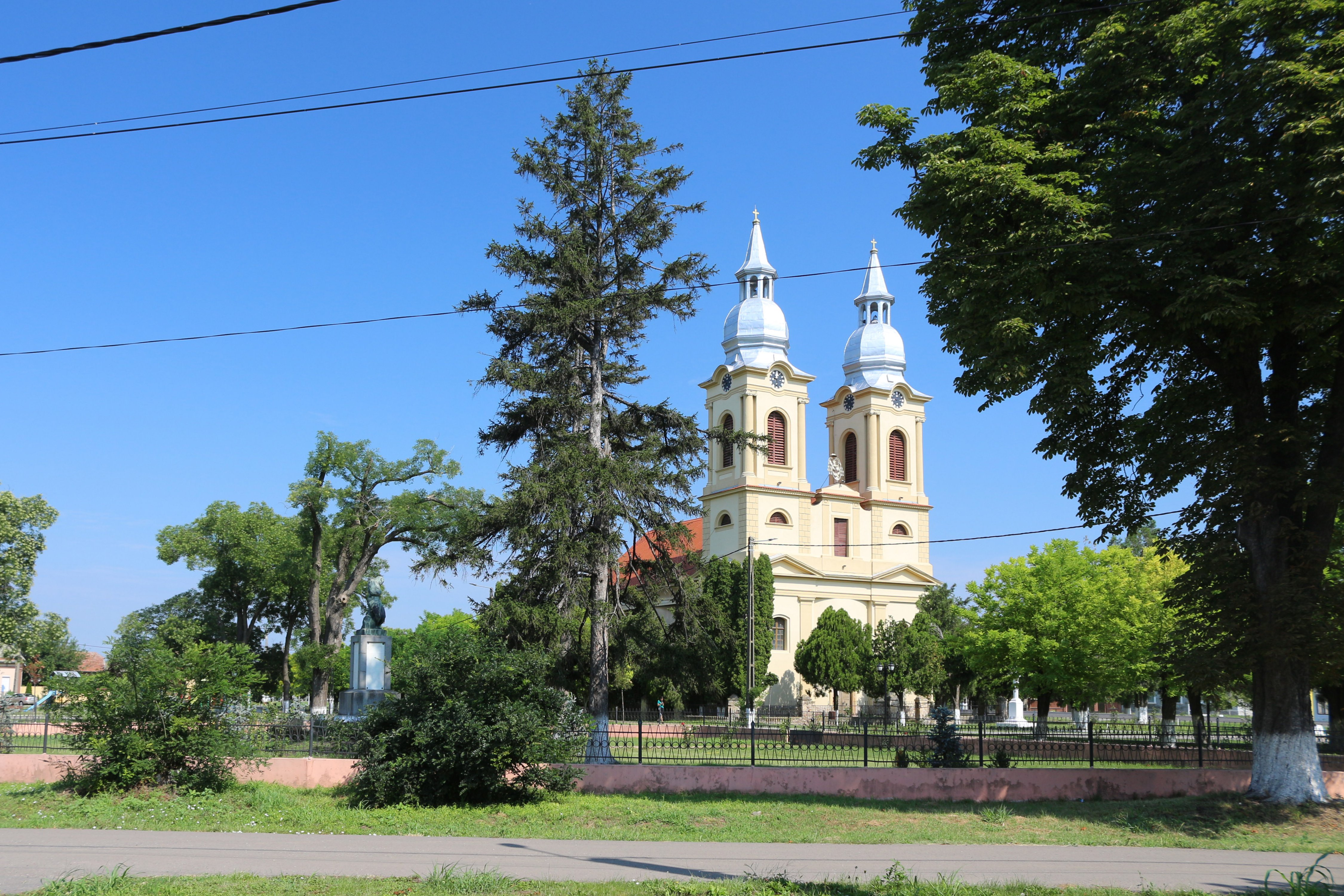 The rural ensemble „Zona Pieței”, Șandra, Timiș County, Romania